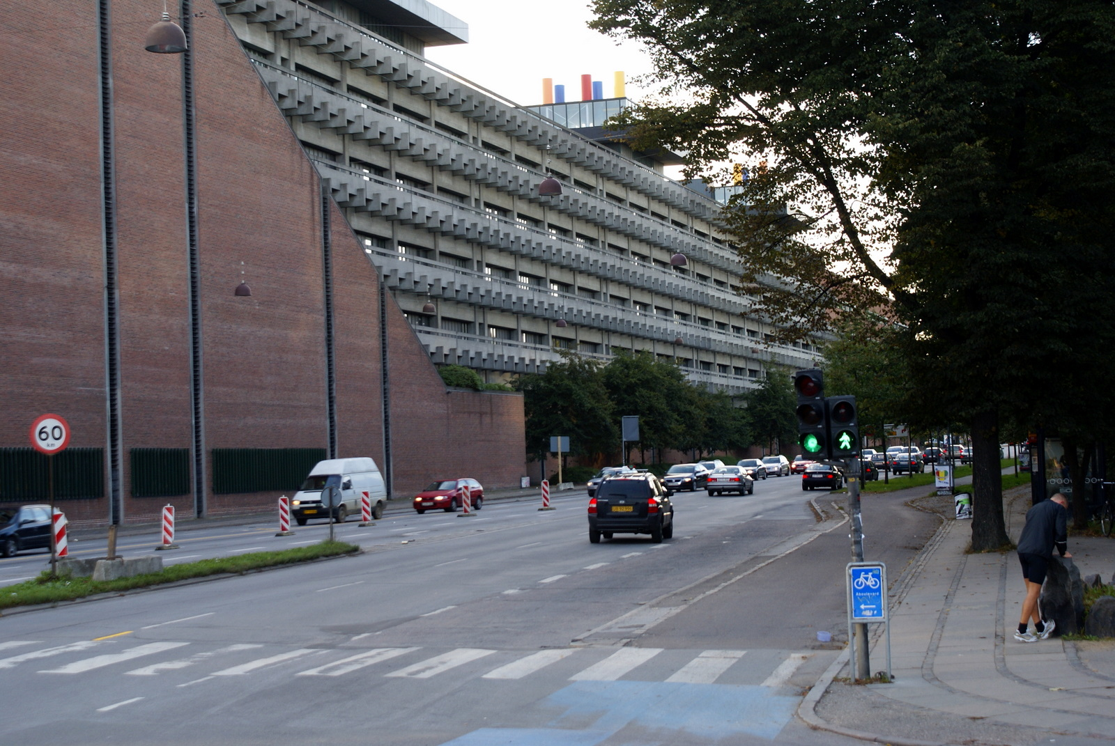 The beginning of Tagensvej, seen from Blegdamsvej. The building behind is the Panum Institute.